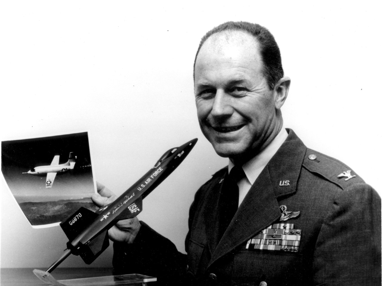 Col. Charles S. Yeager, Commandant of the USAF Aerospace Research Pilot School at the Air Force Flight Test Center, Edwards AFB, Calif., poses with a model of the North American X-15 high speed, high-altitude research aircraft. He holds a photograph of the Bell X-1 aircraft in which he became the first man to fly faster than the speed of sound on Oct. 14, 1947.